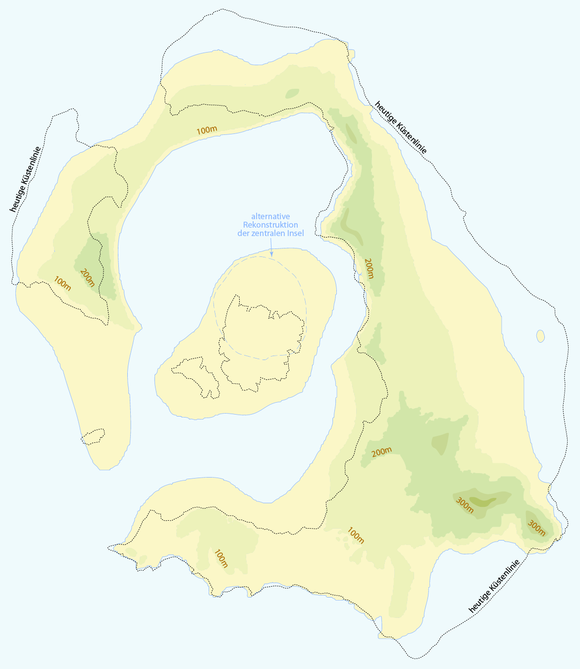 Map of Thera island before the Minoan eruption